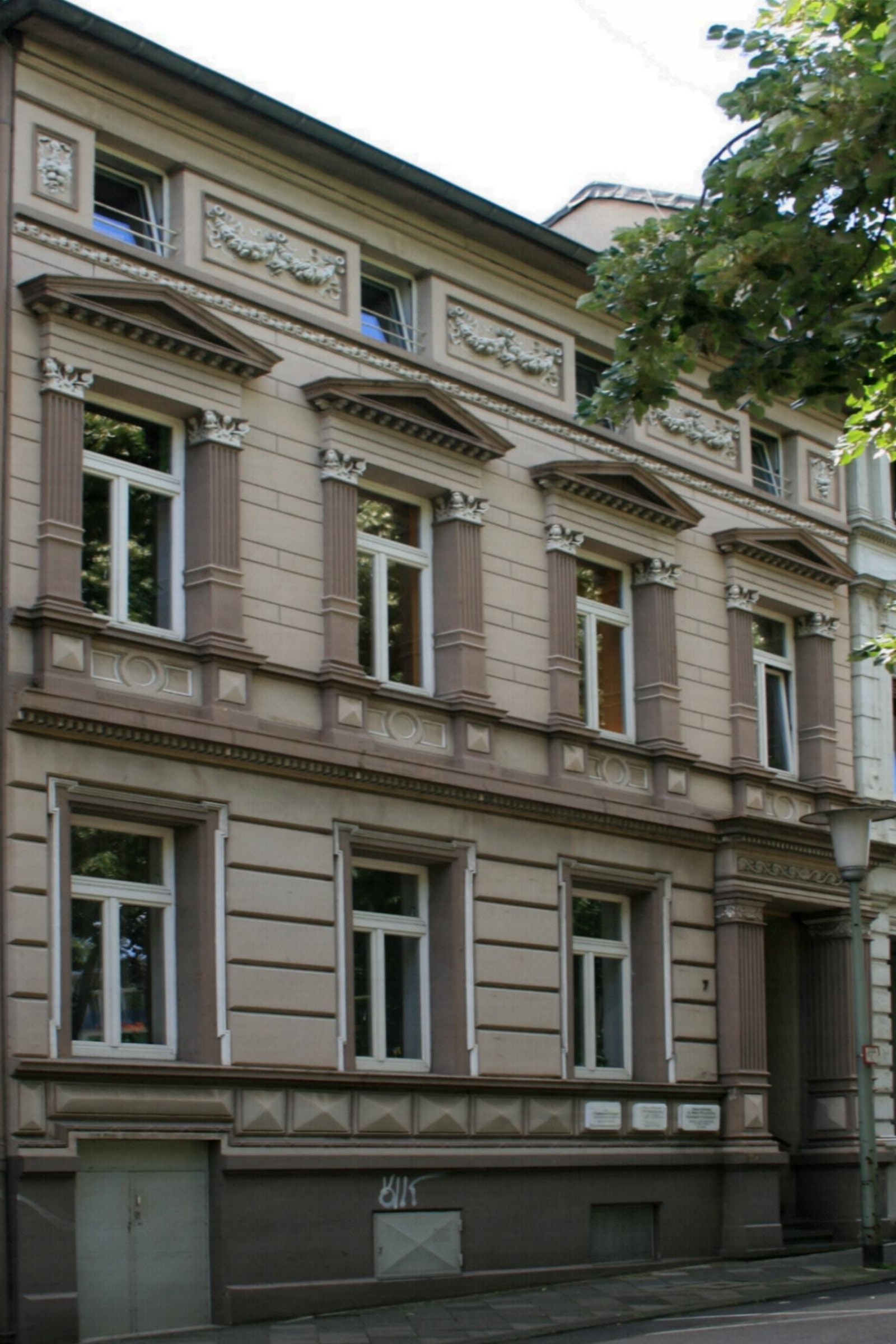 Cultural heritage monument No. A 031 in Mönchengladbach